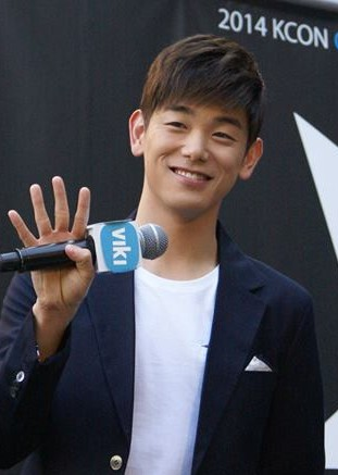 Eric Nam during KCON (music festival), 2014